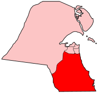 Map of Kuwait showing Al Ahmadi governorate. Made by User:Golbez.